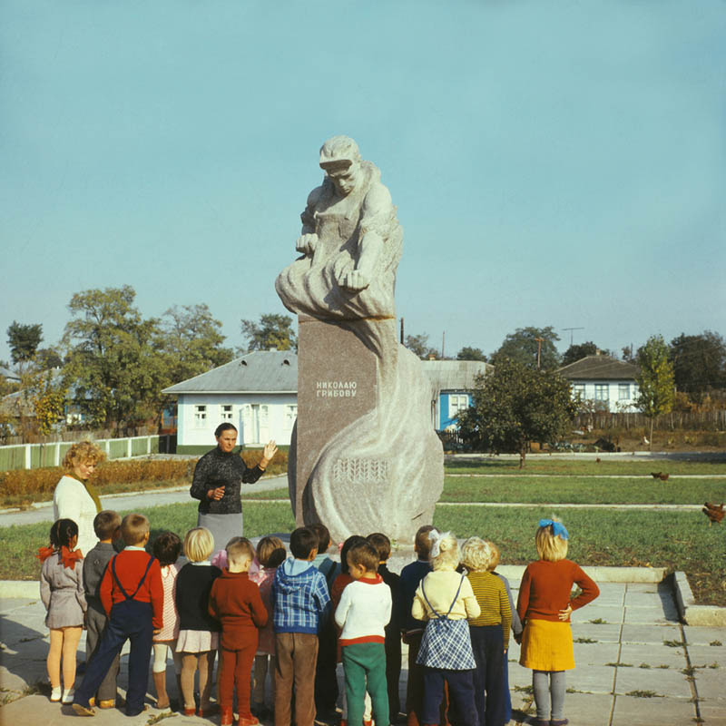 On September 5th, 1962 Niсolai Stepanovici Gribov together with communist V. Koteshkov, made the heroic act which has become the legendary. At the price of the lives, they rescued from a fire a grain yield in state farm "Shcherbakovsky".